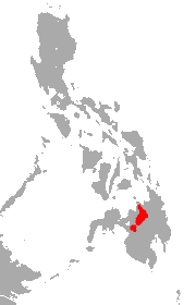 Mindanao Pygmy Fruit Bat (Alionycteris paucidentata) range